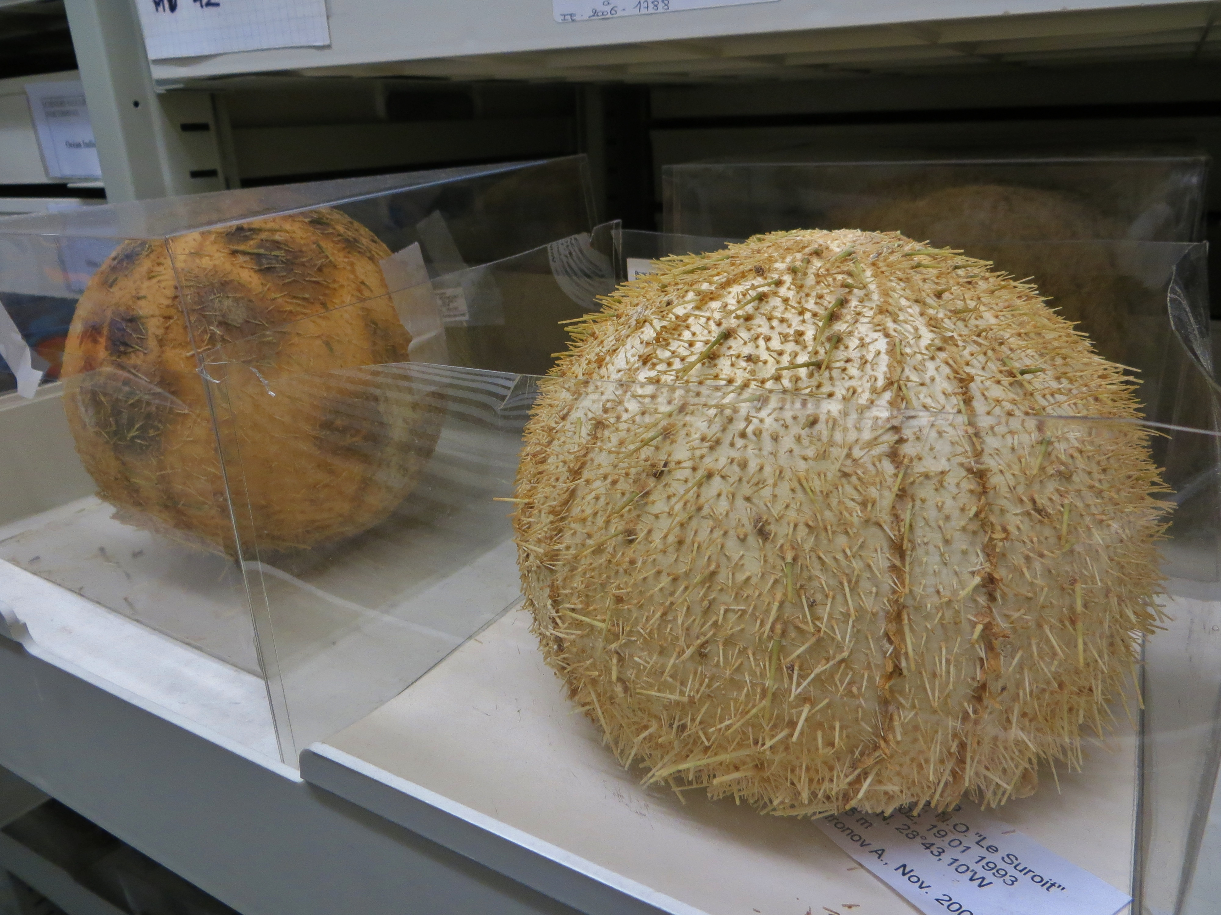 Echinus melo ("melon urchin") from the Paris Museum.